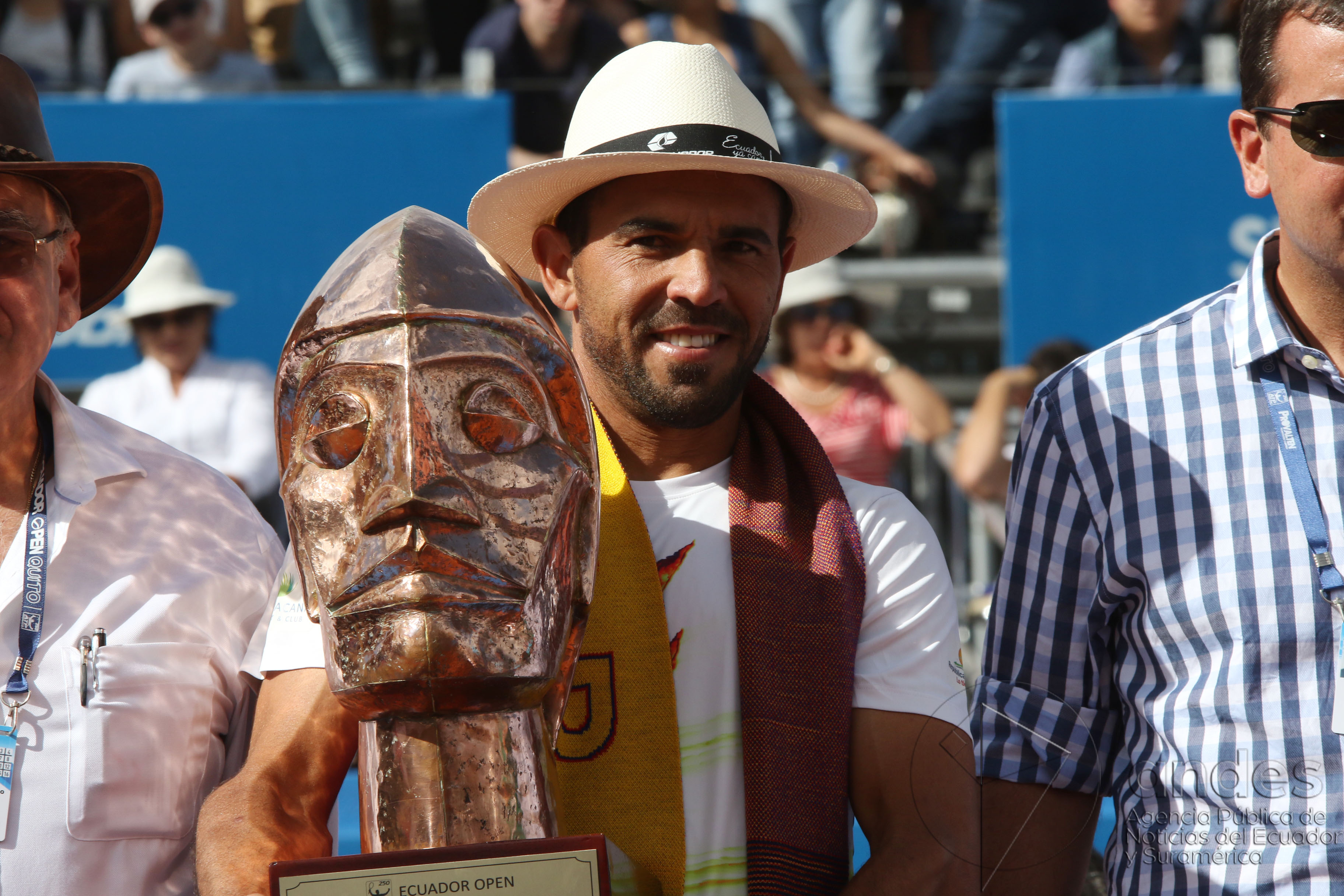 2016 Ecuador Open Quito Final: Víctor Estrella Burgos vs. Thomaz Bellucci.